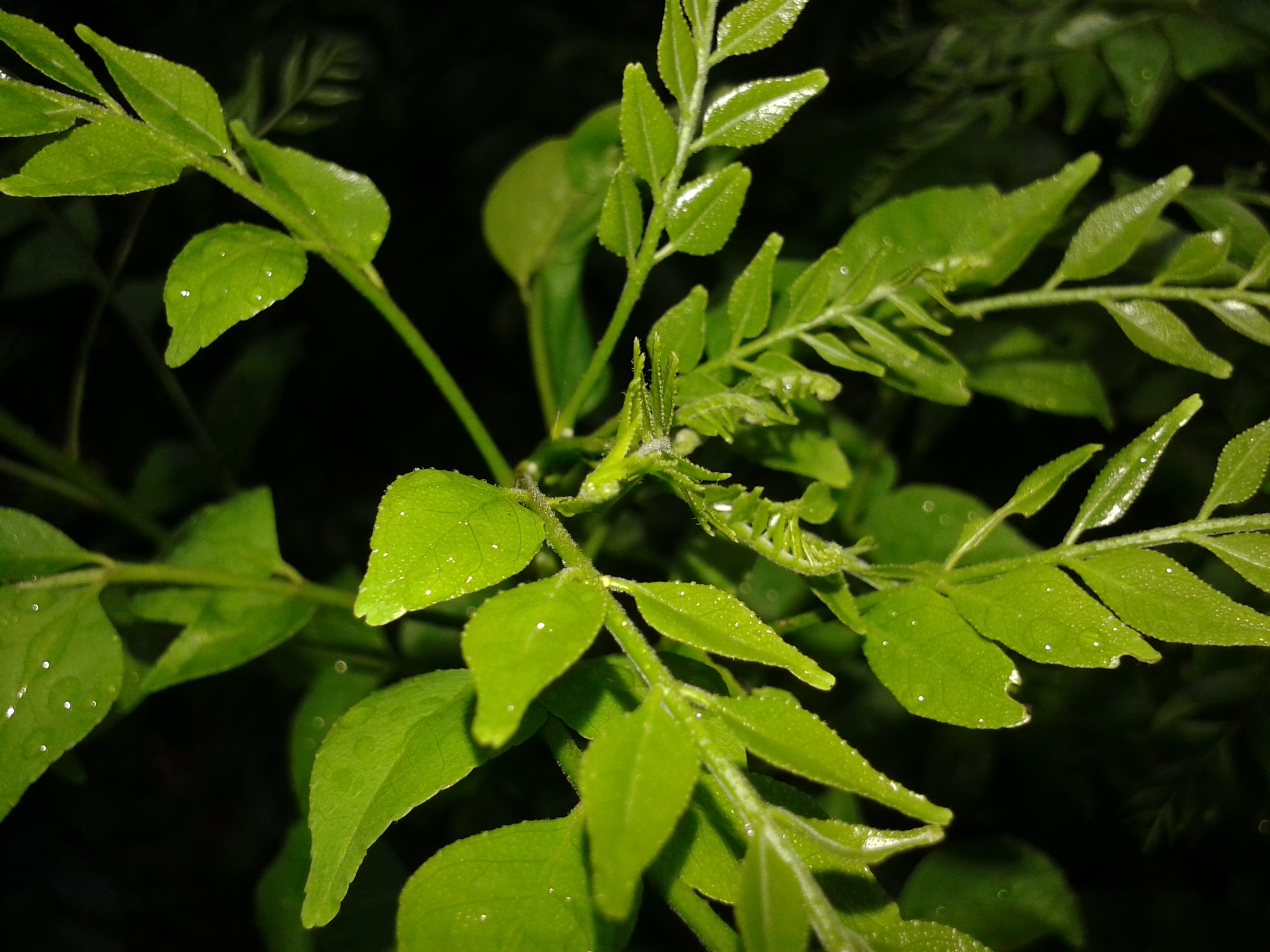 curry leaves in a tree